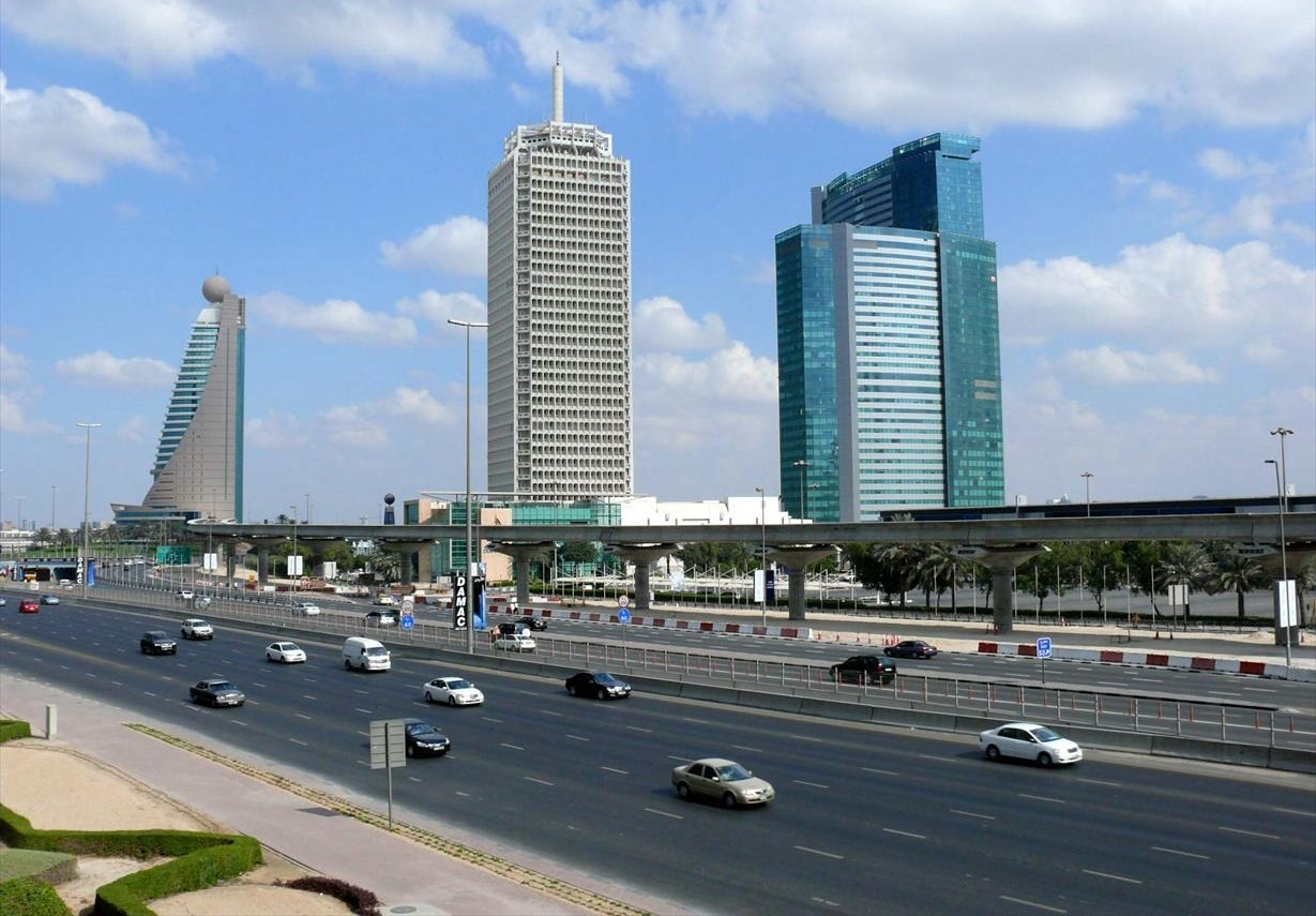 This is a photo showing Etisalat Tower 2 (on the left), Dubai World Trade Centre (n the center), and World Trade Centre Residence (on the right) on 28 December 2007. These three buildings are situated alongside Sheikh Zayed Road in Dubai, United Arab Emirates.